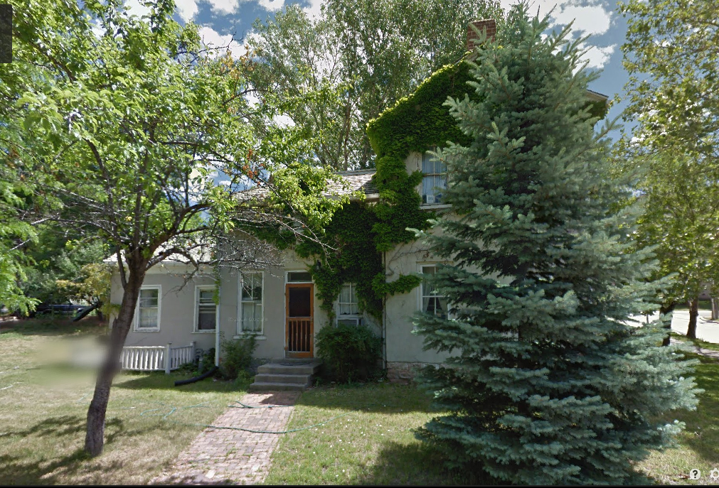 Photo of the Ebeneezer Beesley House in Salt Lake City